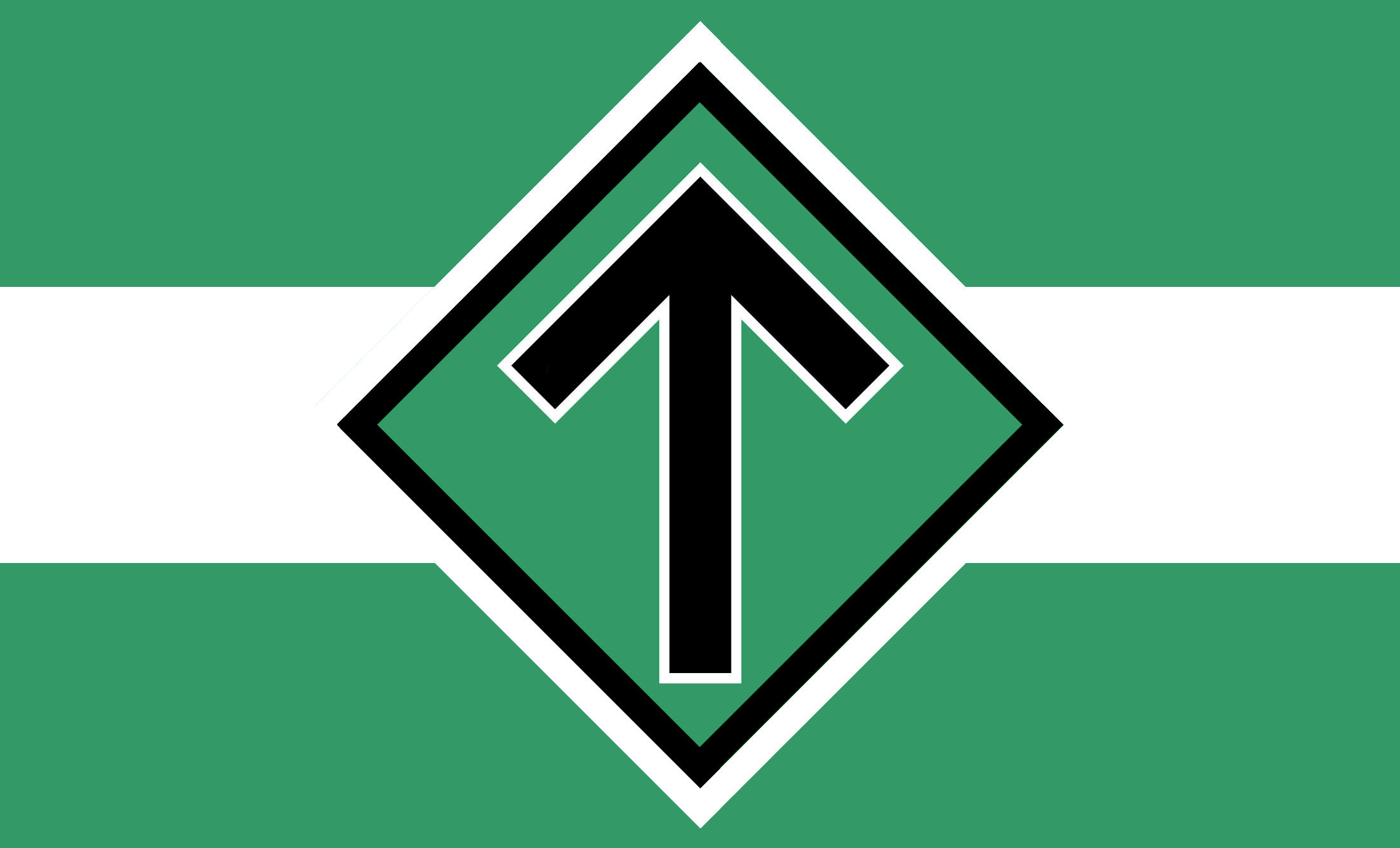 Flag of Nordic Resistance Movement